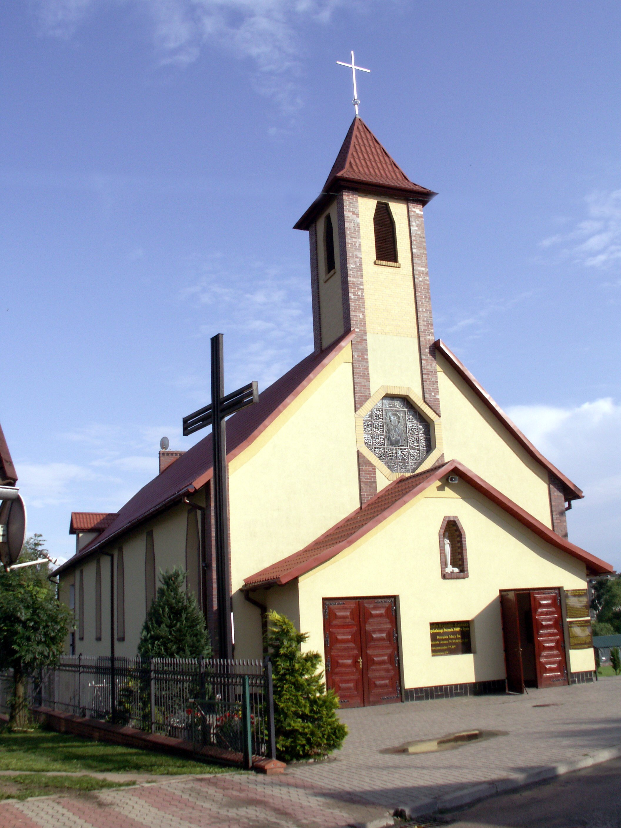 Ryn church